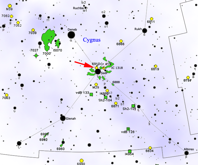 Map of NGC 6910